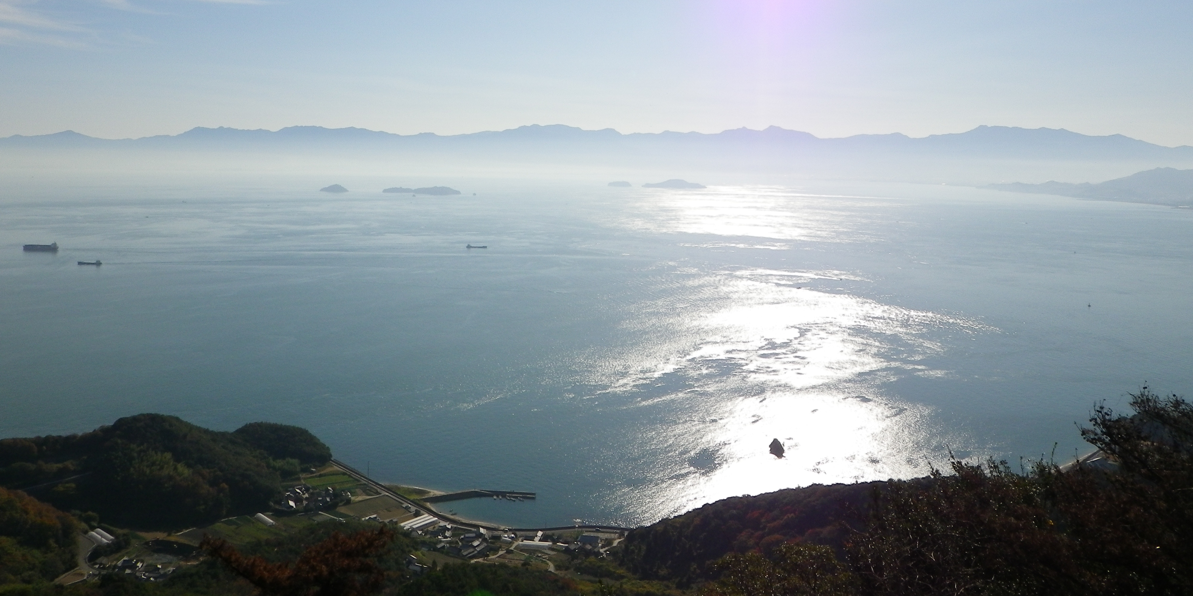 Looking the SSE from Mount Kiro in Oshima Island, Imabari. Hiuchinada in the foreground. Ishizuchi Mountains in the foreground.